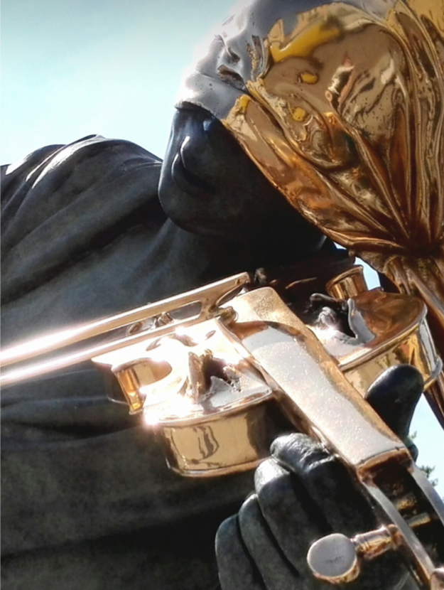 Anna Chromy, Violin player, (detail), 1997, bronze, color patina. Public sculpture from Music of the river. In Cascina (PI), from 23/08/2019 to 29/09/2019